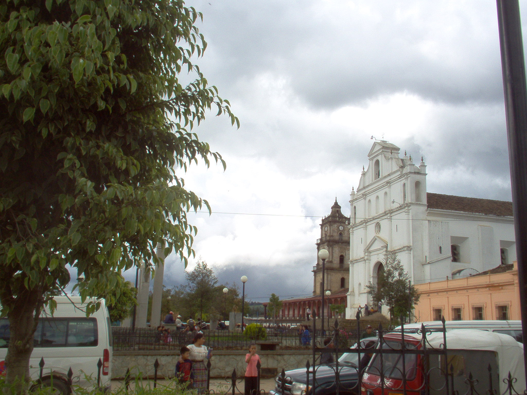 Photo of the central plaza in Santa Cruz del Quiché, Guatemala